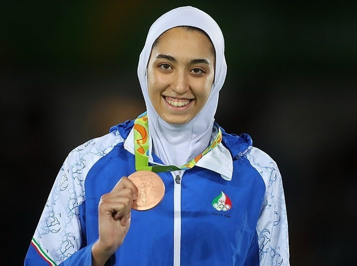 Kimia Alizadeh from Iran won bronze medal in Taekwondo at the 2016 Summer Olympics